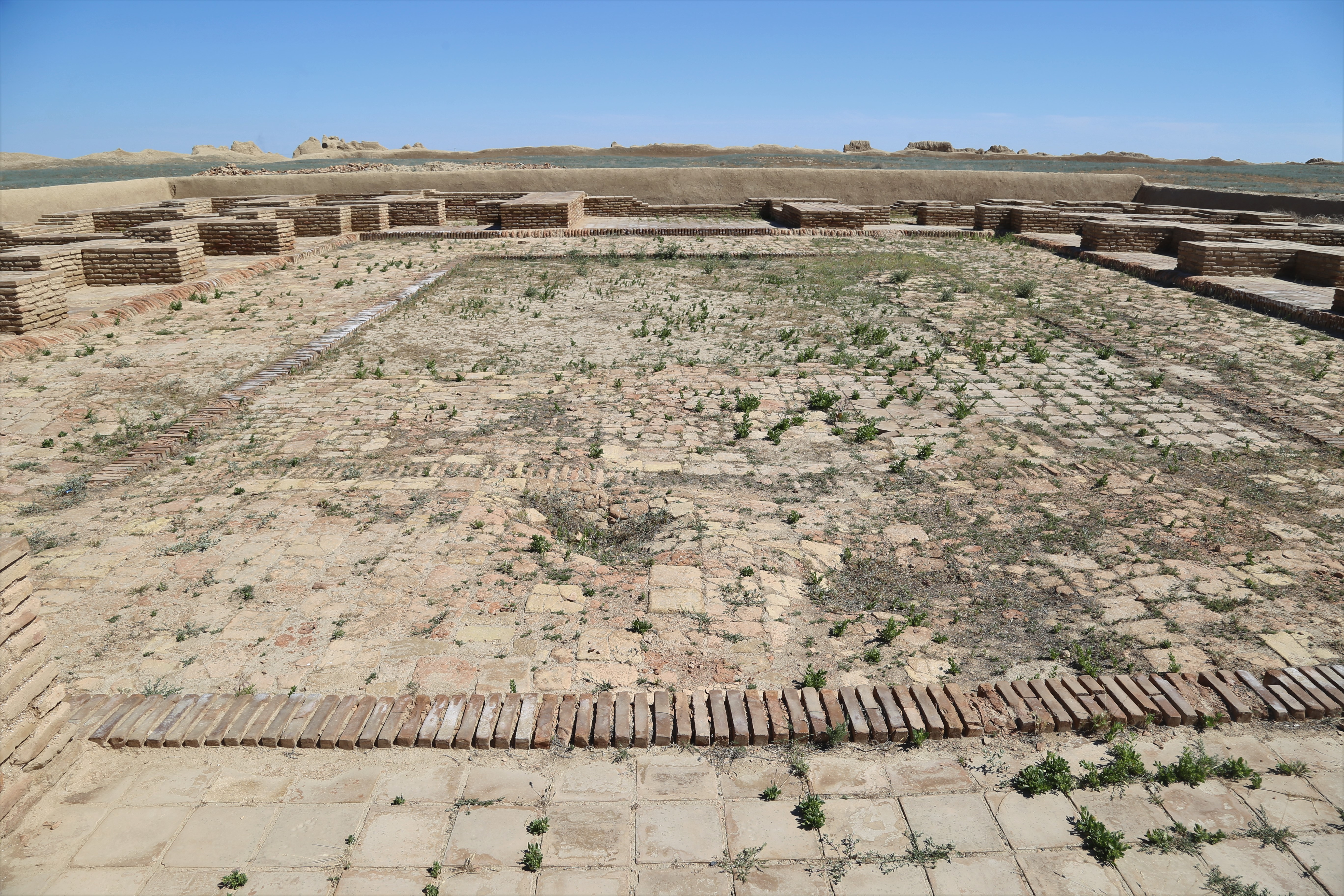 Sauran